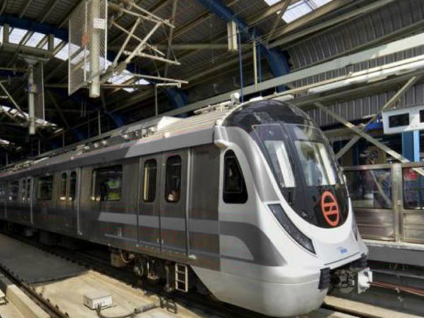 Gray Line - 9